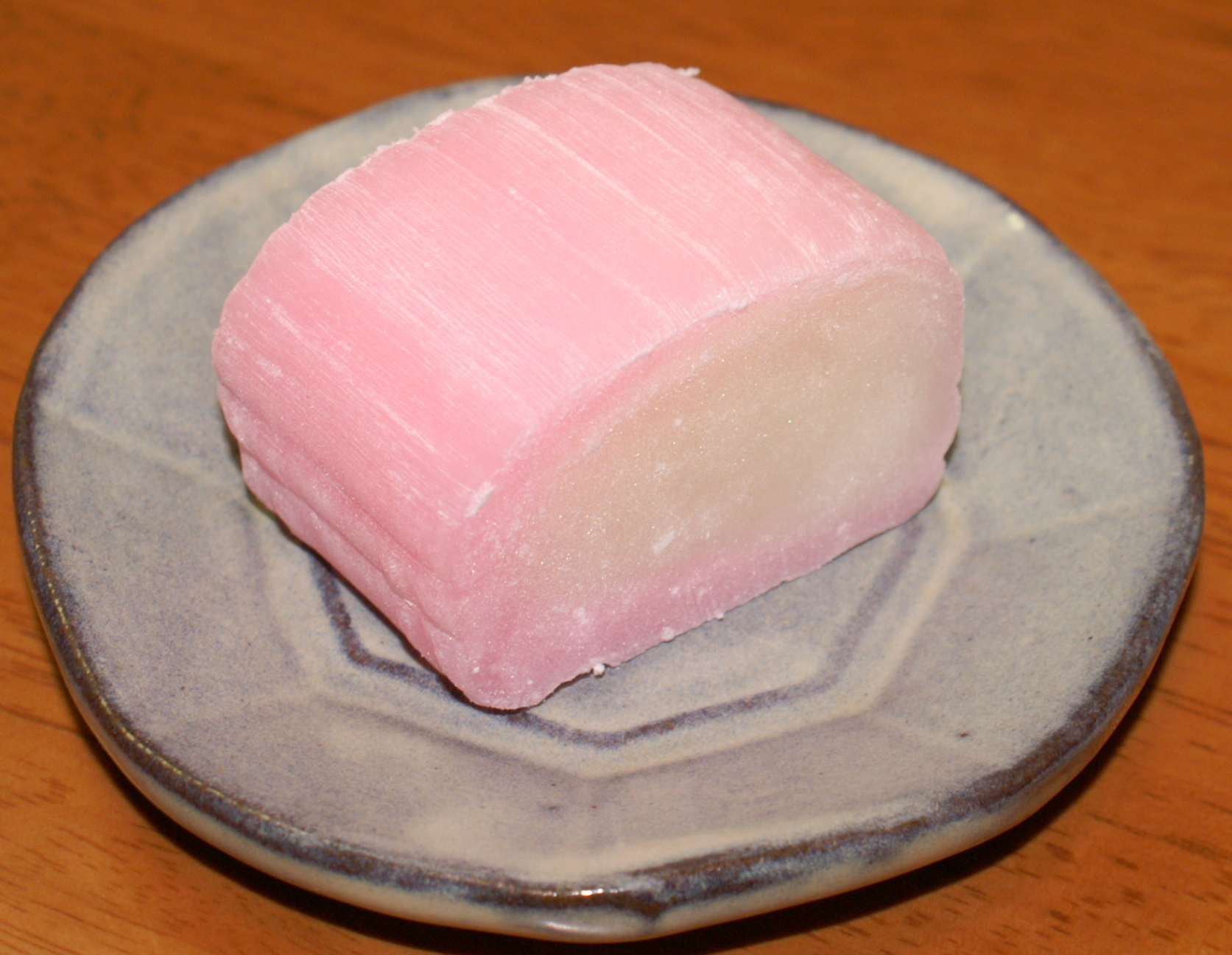 Suama Japanese sweets made of rice flour